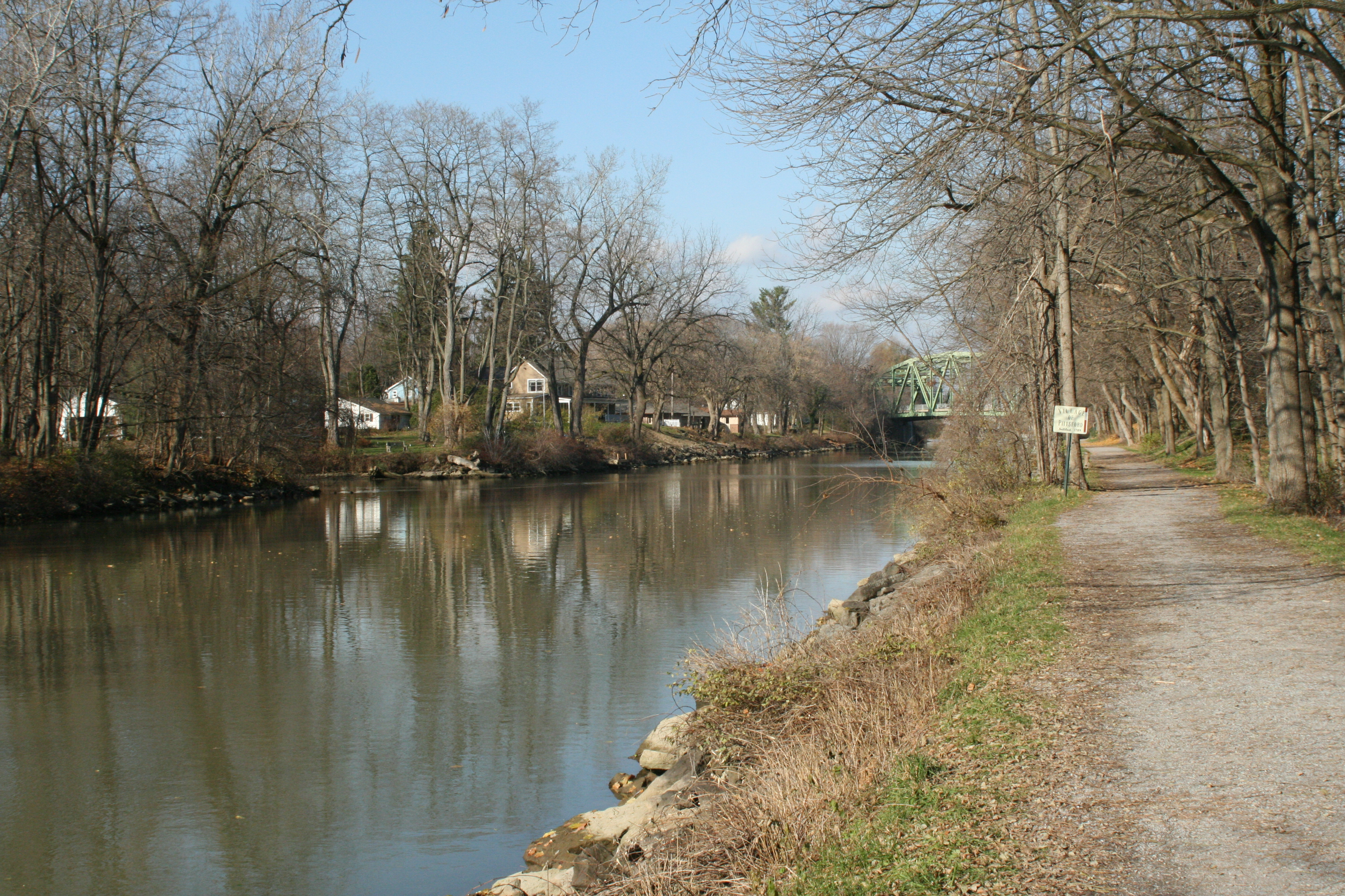 Erie Canal in Pittsford, New York